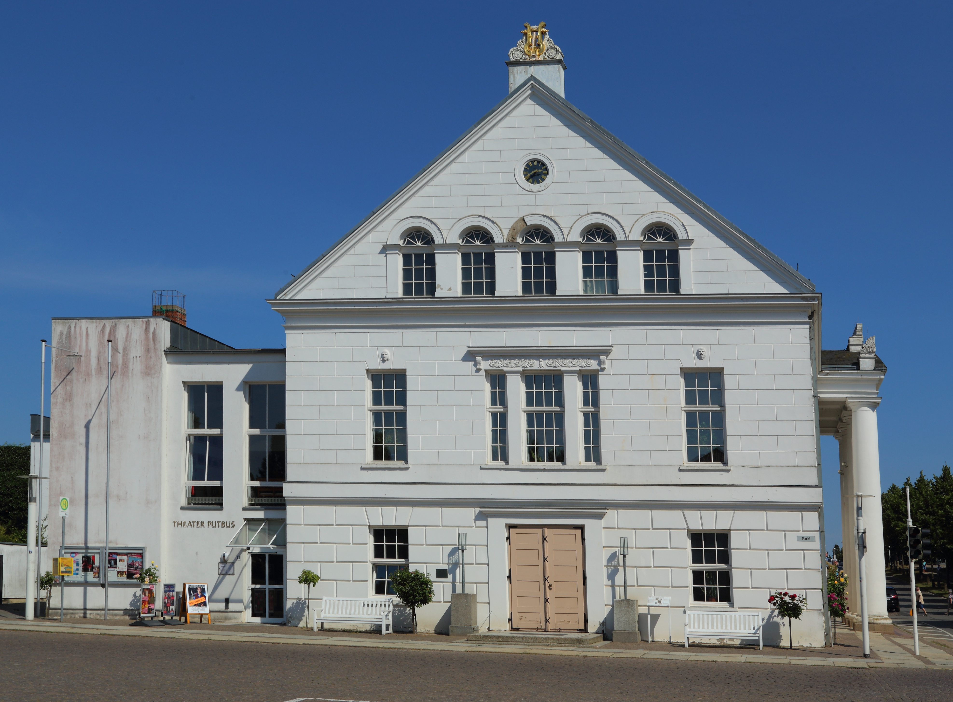 Putbus Theatre in Putbus, Landkreis Vorpommern-Rügen, Mecklenburg-Vorpommern, Germany. The building is a listed cultural heritage monument.